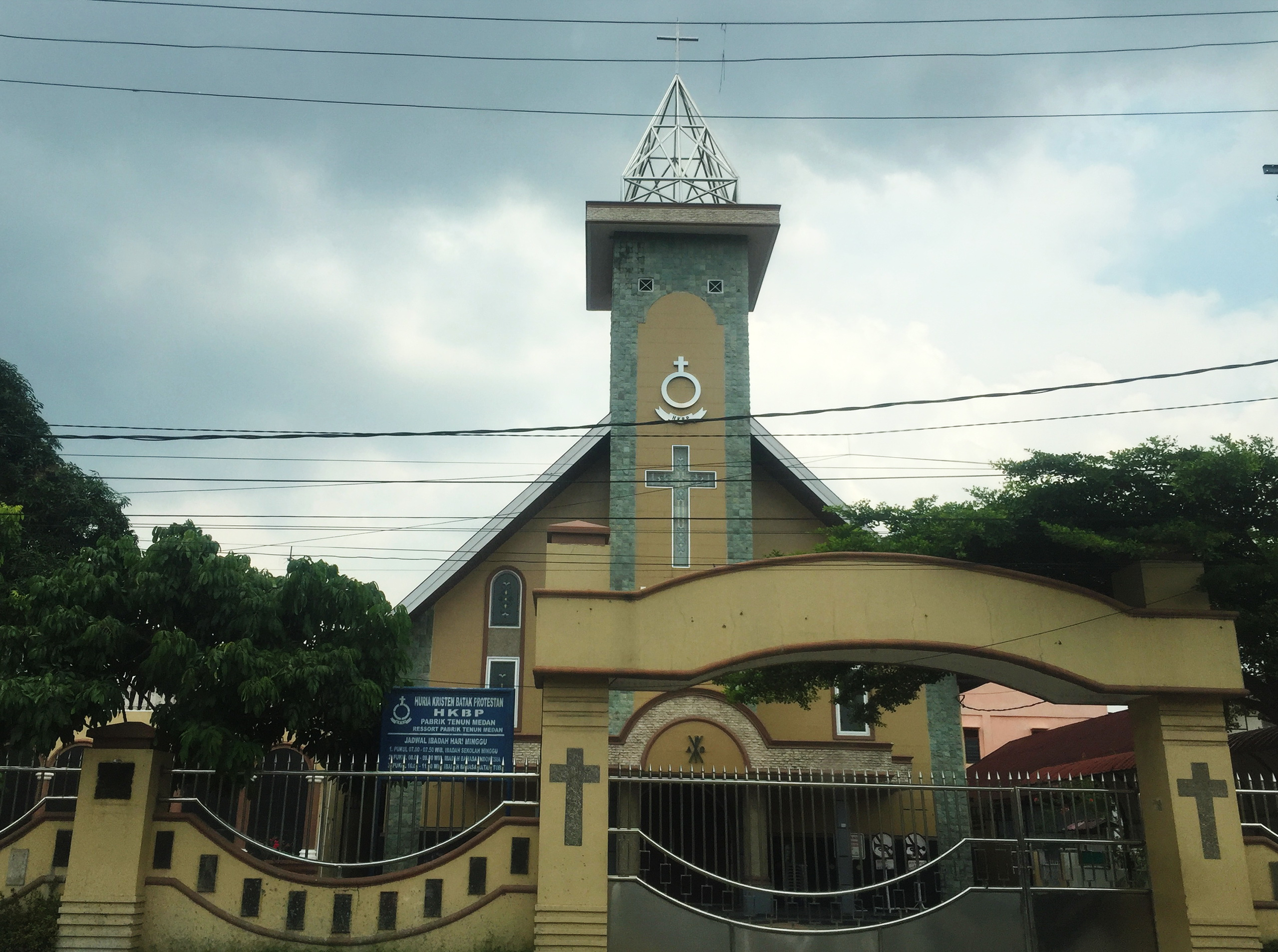 HKBP Pabrik Tenun, church in Sei Putih Timur I, Medan Petisah, Medan